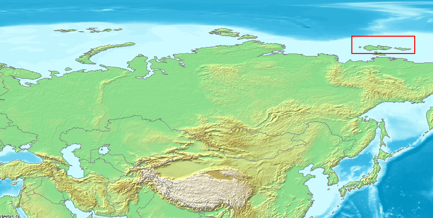 Location of Anzhu Islands